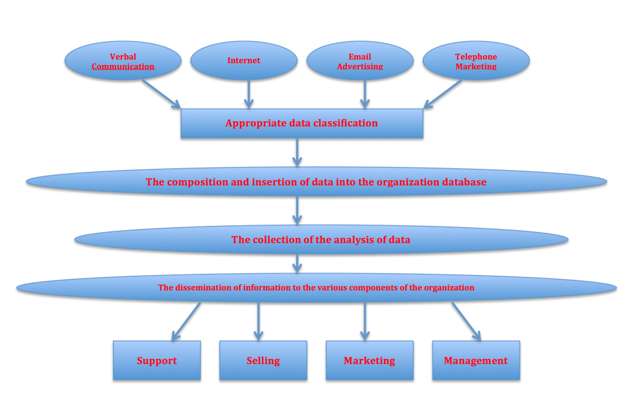 Components of types of CRM